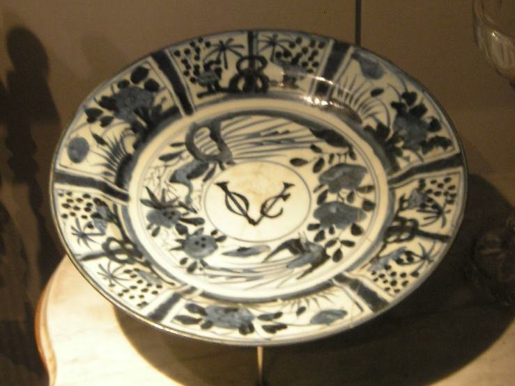 A collection of Dutch furniture and appliances that include table, chairs, lamp and plate (kraak porcelain) that bears the VOC name. This collection is a part of Dutch heritage in Malacca.